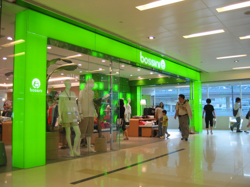 Bossini Store in New Town Plaza